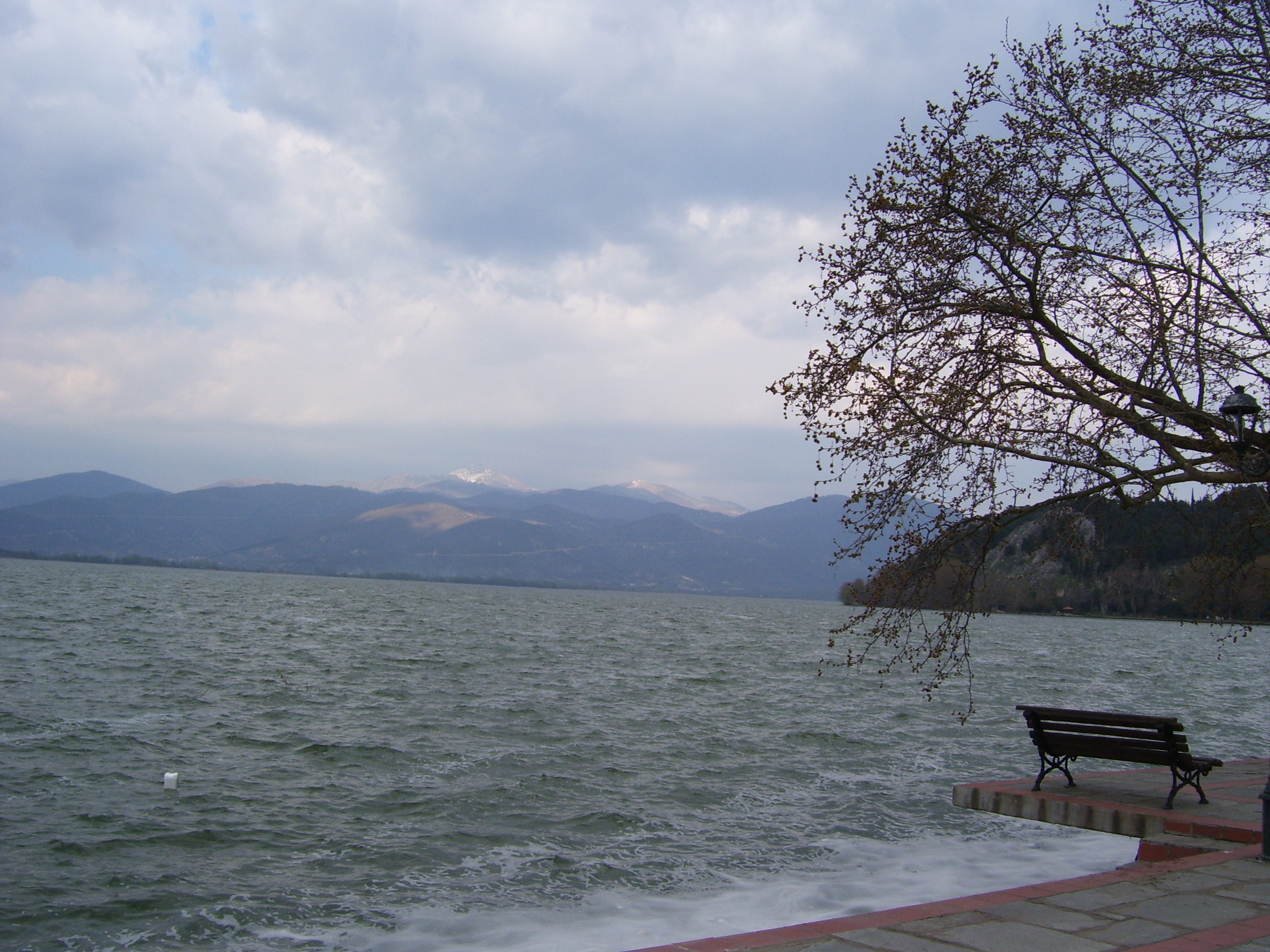 Lake Kastoria from the town of Kastoria.